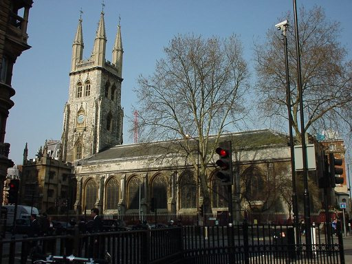 St Sepulchre-without-Newgate, London